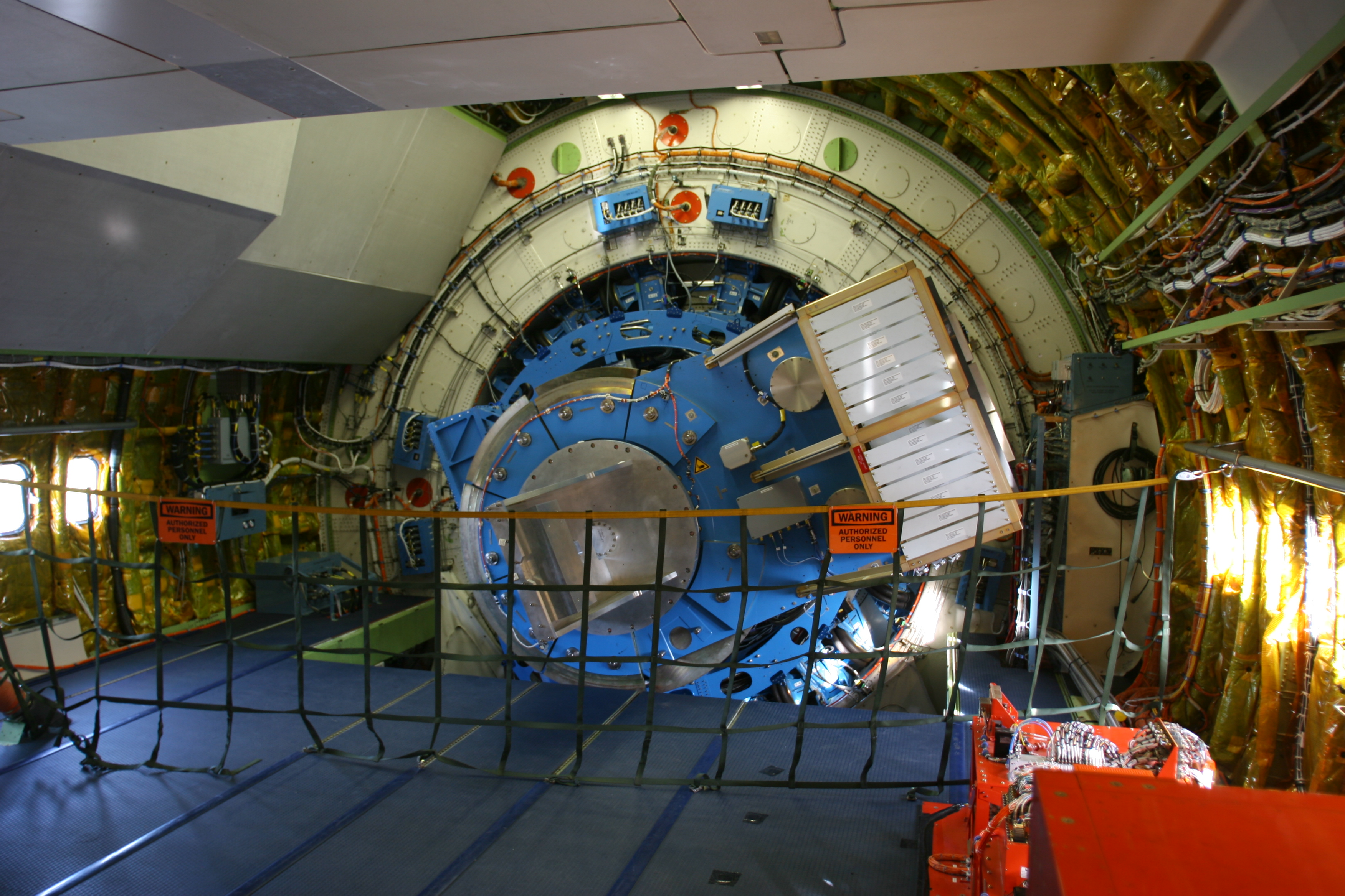 SOFIA telescope. Credit: DLR (CC-BY 3.0).